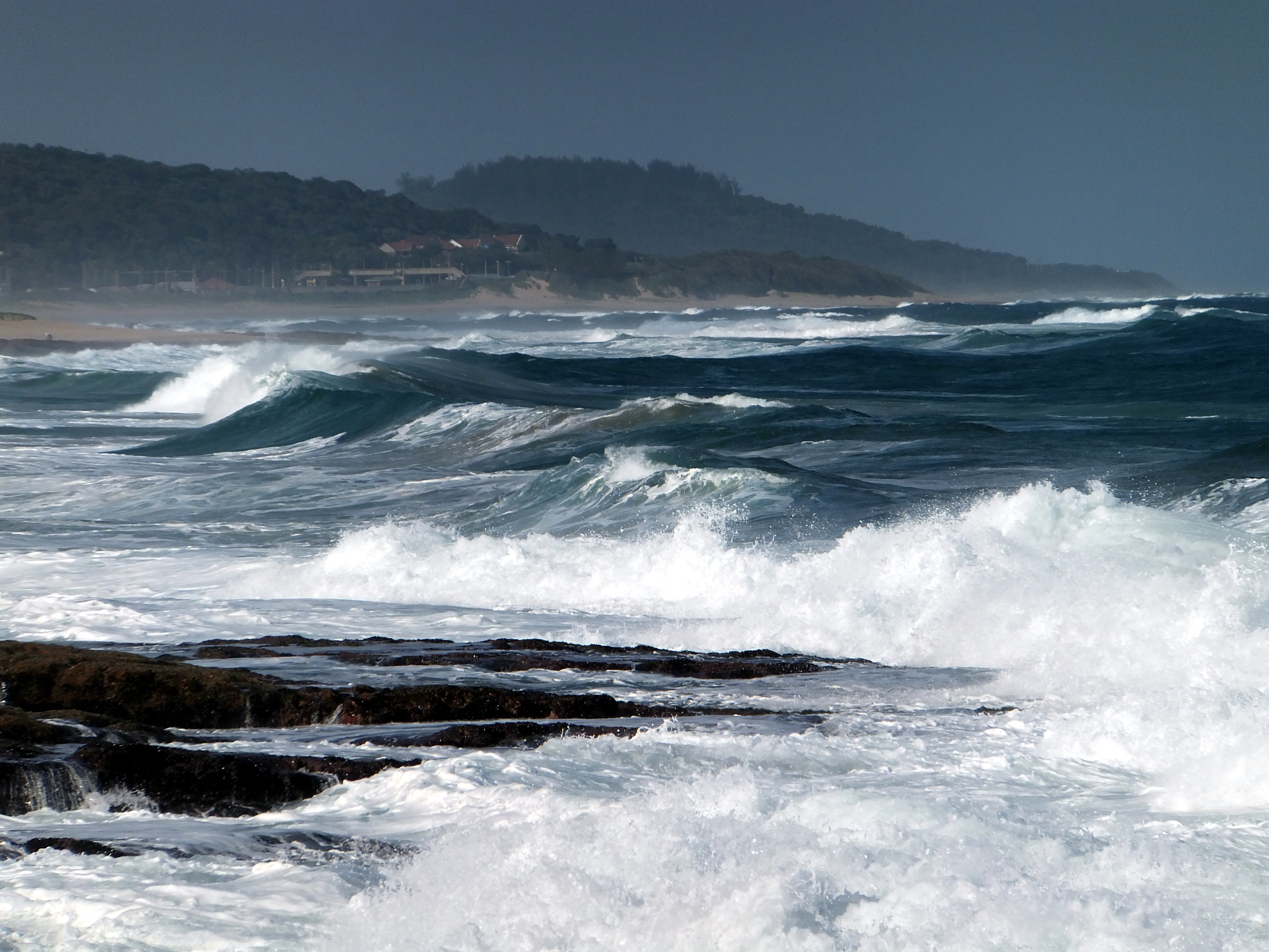 KZN, South Africa